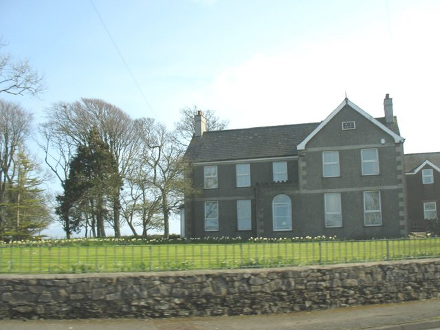 Cefncwmwd, Rhostrehwfa Parts of this complex have been adapted as holiday cottages.